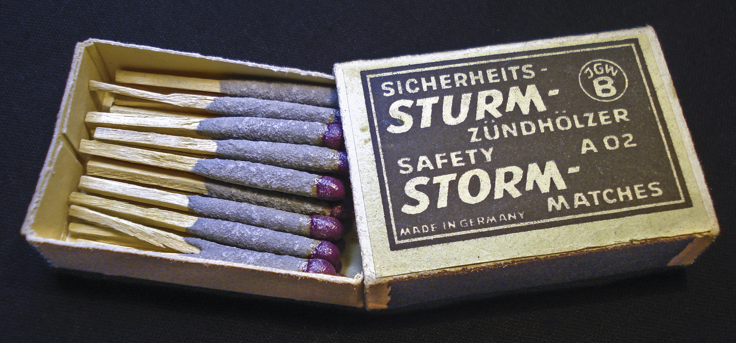 Stormmatches